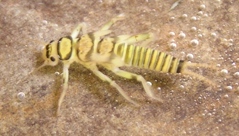 Helopicus subvarians nymph. Ausable River, southern Ontario.